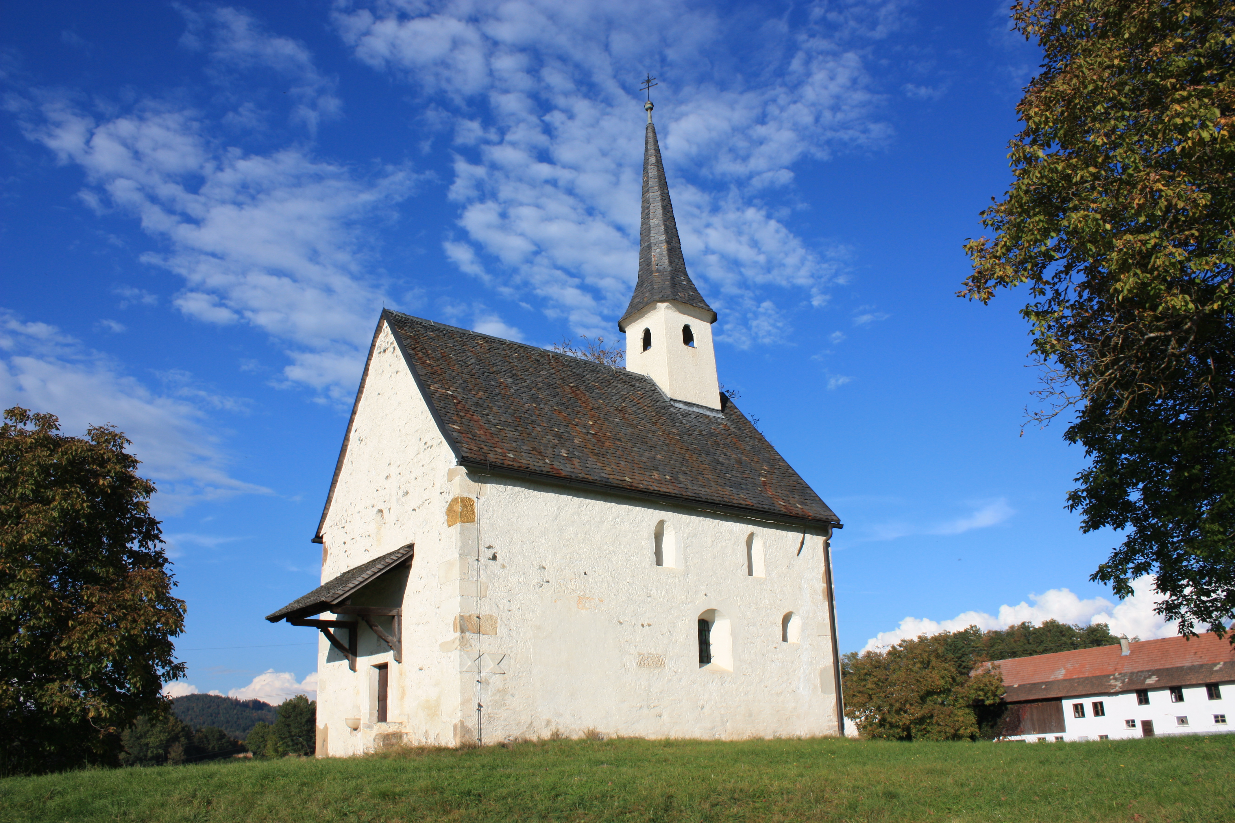 Subsidiary church Holy John the Baptist at Streimberg Locality:Hörzendorf Community:Sankt Veit an der Glan